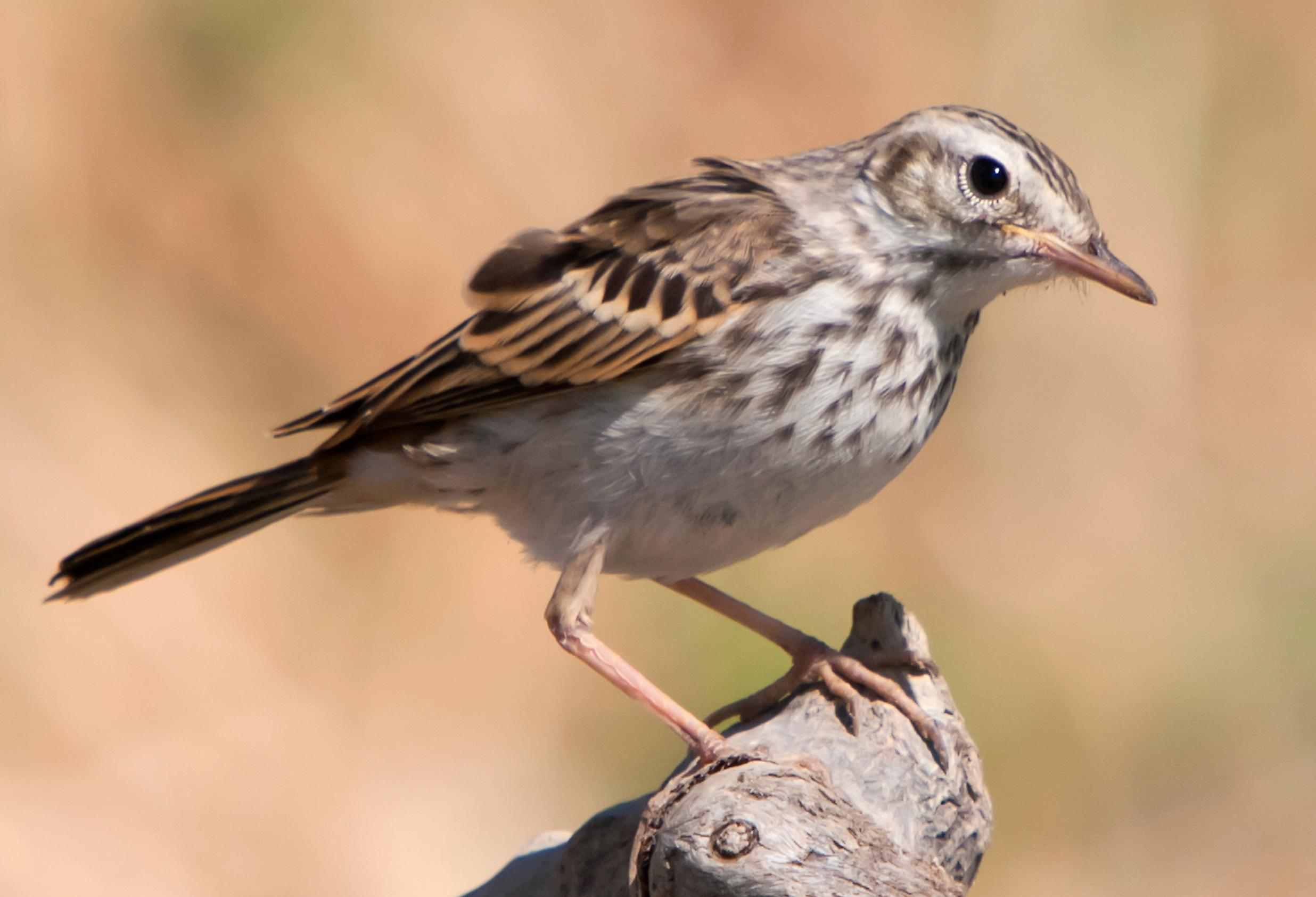 Berthelot's Pipit